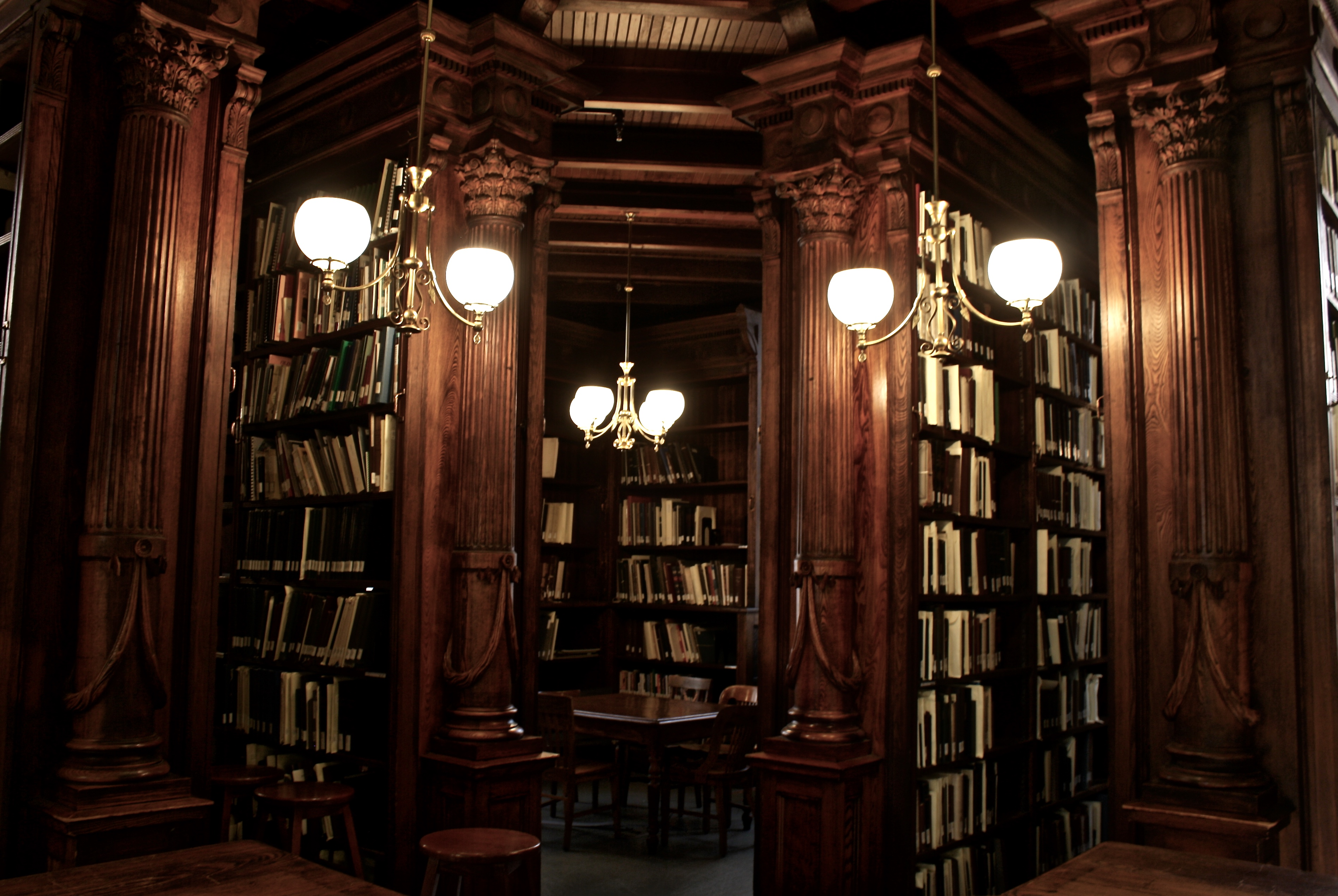 Another beautiful corner of the Othmer Library. The angle gives a sense of peaceful symmetrySite: Brooklyn Historical Society